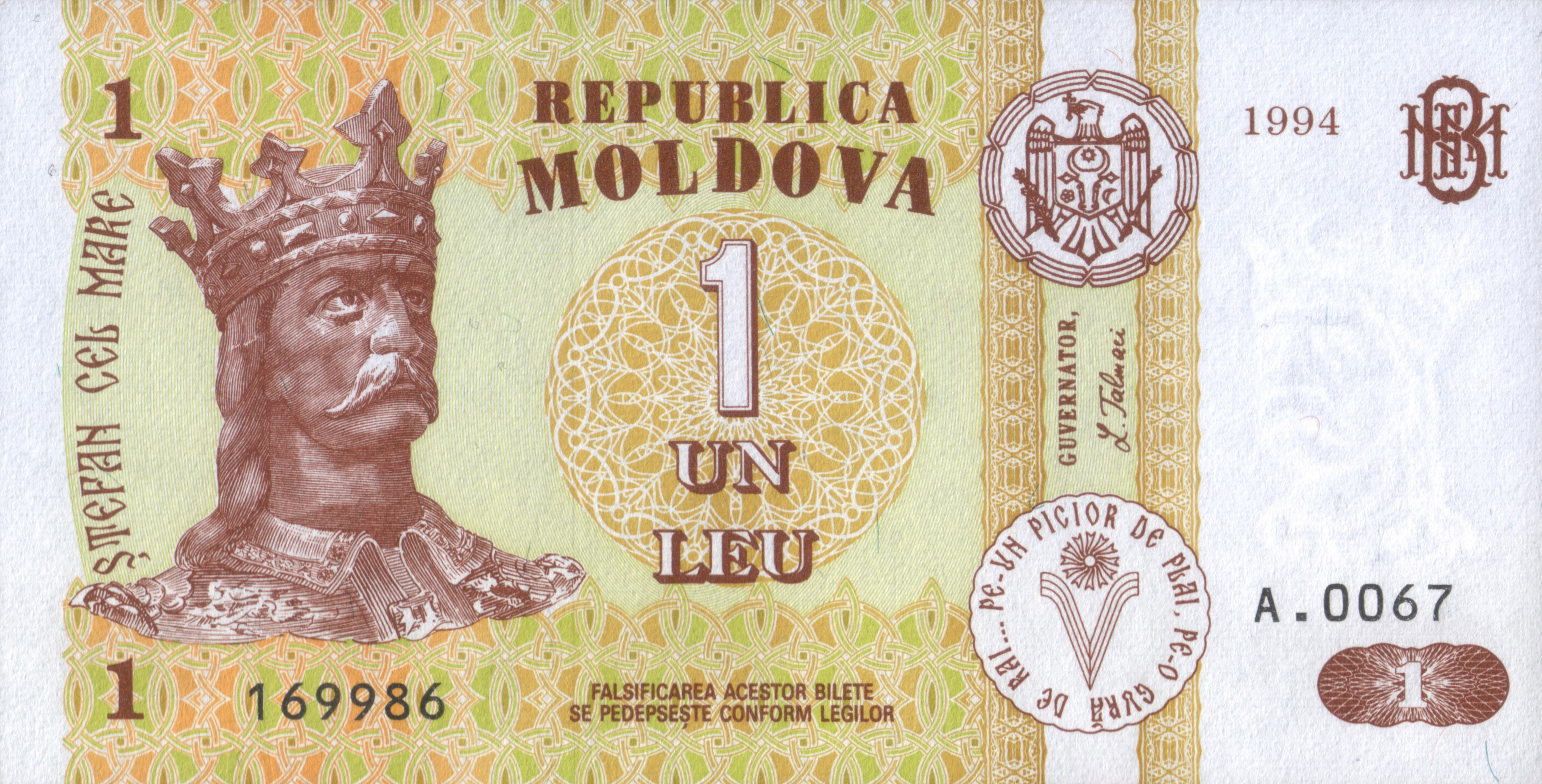 1 lei (1994)